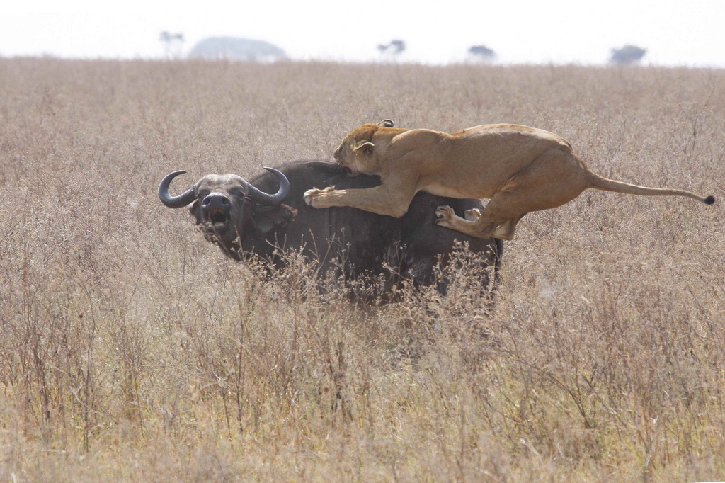 Lioness attacking Cape Buffalo in the Serengeti National Park